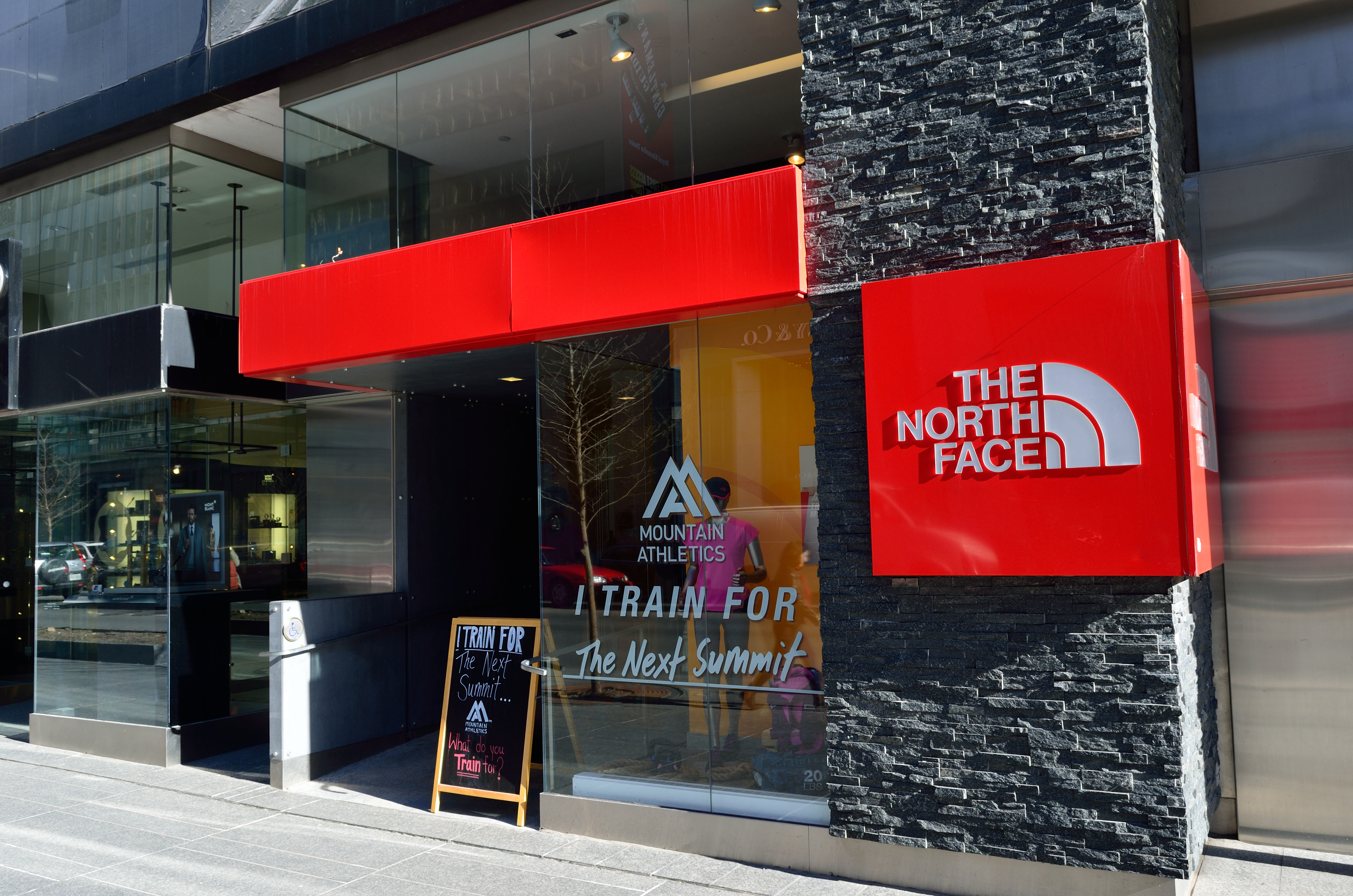 The North Face on Bloor Street West